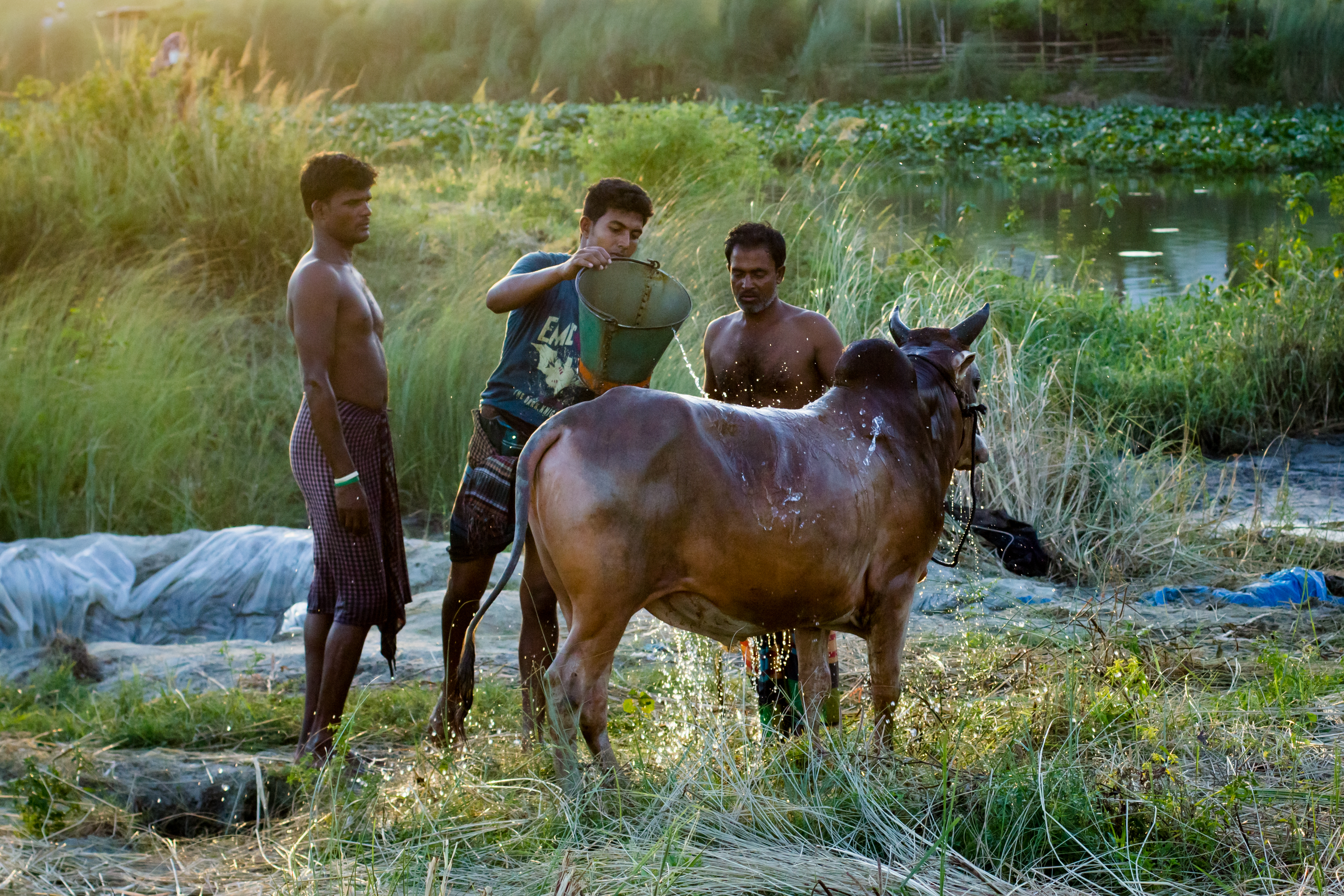 A bull owner is cleaning the bull before taking cattle market for Eid-Ul-Adha in Boshila, Dhaka, Bangladesh.